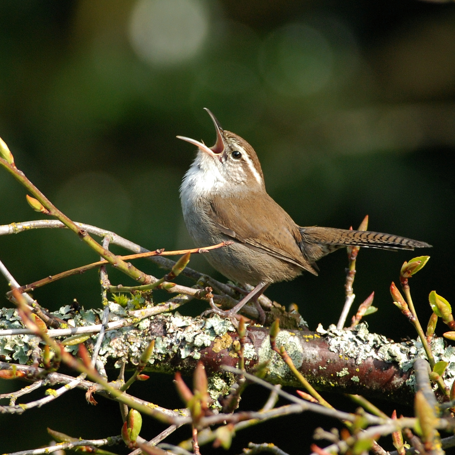 Bewick's Wren Thryomanes bewickii calophonus, Seattle